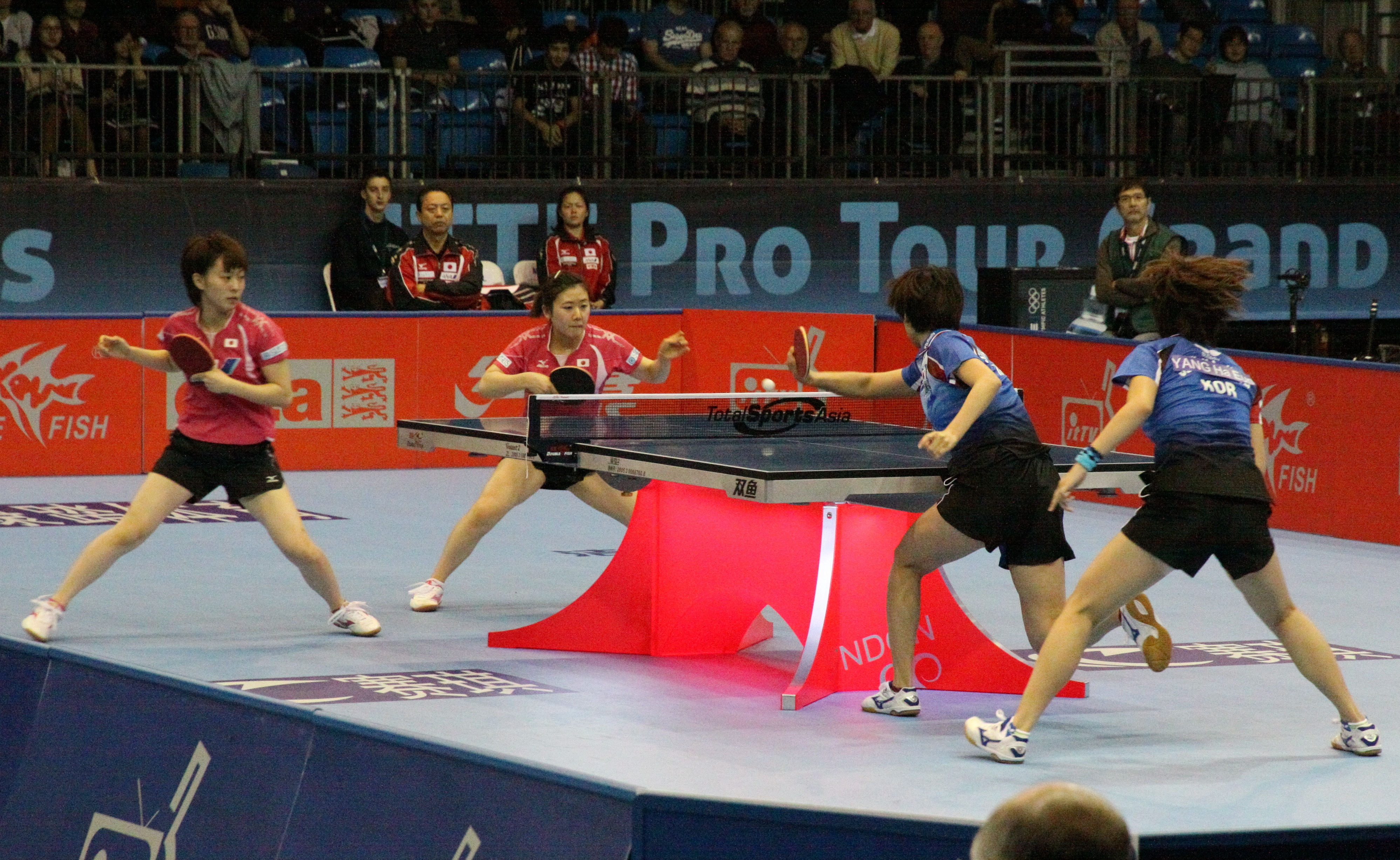 Kasumi Ishikawa (on the left) and Ai Fukuhara during the Table Tennis Pro Tour Grand Finals at the ExCeL London on November 27-28, 2011.